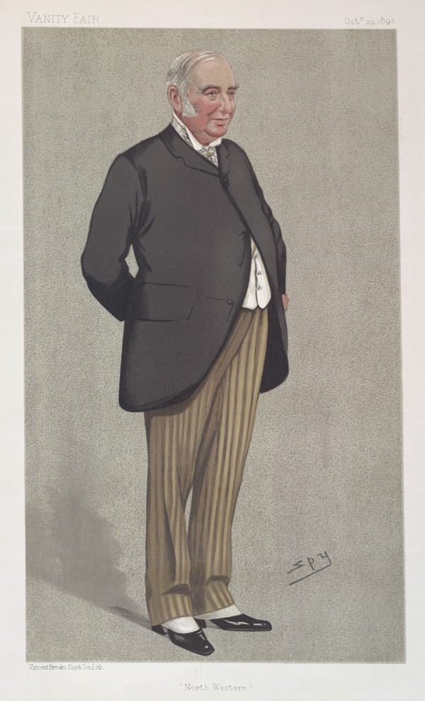 Men of the Day No.549: Caricature of Sir George Findlay (1829-1893). General manager for the London and North Western Railway Railway 1874-1893. [1]. Caption reads: "North Western"